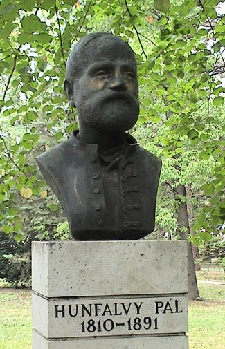 Statue – Pál Hunfalvy (1810–1891) linguist, ethnographer. Miskolc, Hungary. Sculptor:Péter Szanyi